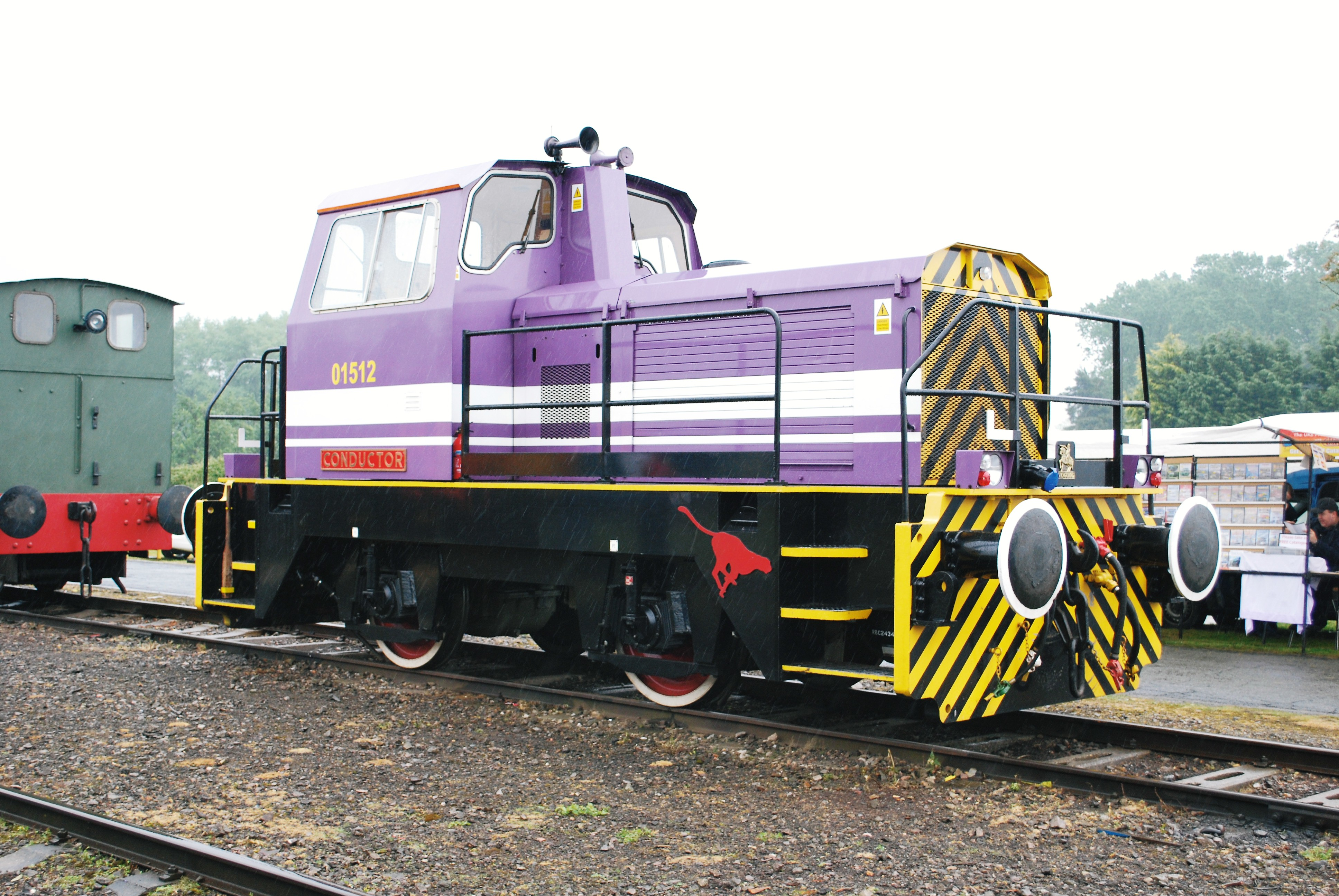 Beautifully presented Thomas Hill (Vanguard) 34t 0-4-0 diesel hydraulic with 255 hp Rolls Royce C6SFL engine No.319V of 1988, rebuilt by the LH Group at Barton-under-Needwood in 2002 (possibly with a new engine?). Originally a Sentinel design. MoD No.01512 (ex-301) "Conductor" Used at the Defence Storage & Distribution Centre at Bicester. At Long Marston Open Day 6/09.